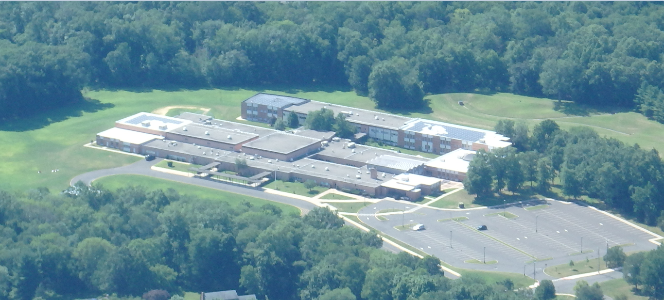 Areal shot of the Middle School in Basking Ridge NJ